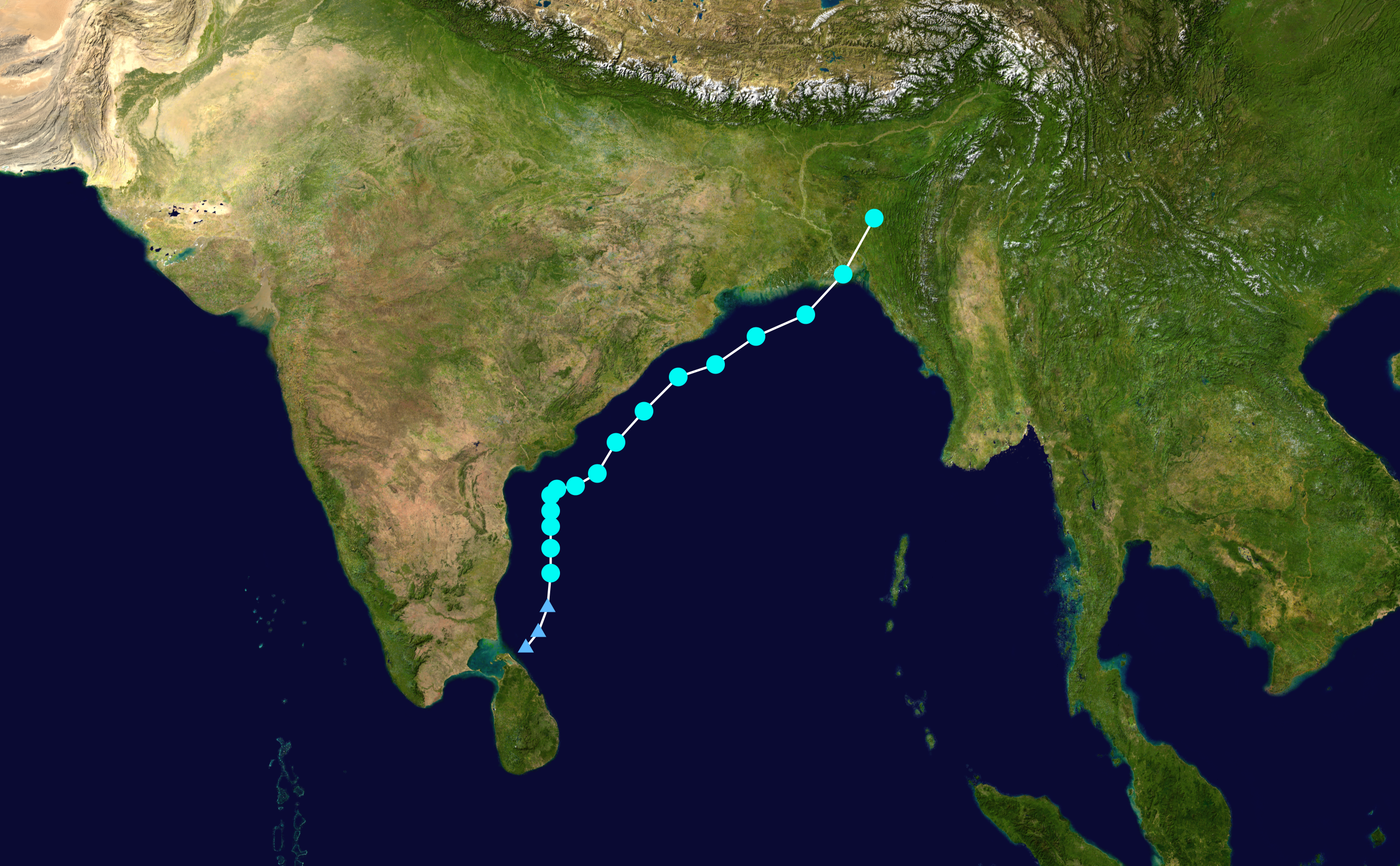 Track map of Cyclonic Storm Roanu of the 2016 North Indian Ocean cyclone season. The points show the location of the storm at 6-hour intervals. The colour represents the storm's maximum sustained wind speeds as classified in the Saffir–Simpson scale (see below), and the shape of the data points represent the nature of the storm, according to the legend below. Saffir–Simpson scale Tropical depression≤38 mph≤62 km/h Category 3111–129 mph178–208 km/h Tropical storm39–73 mph63–118 km/h Category 4130–156 mph209–251 km/h Category 174–95 mph119–153 km/h Category 5≥157 mph≥252 km/h Category 296–110 mph154–177 km/h Unknown Storm typeTropical cycloneSubtropical cycloneExtratropical cyclone / Remnant low / Tropical disturbance